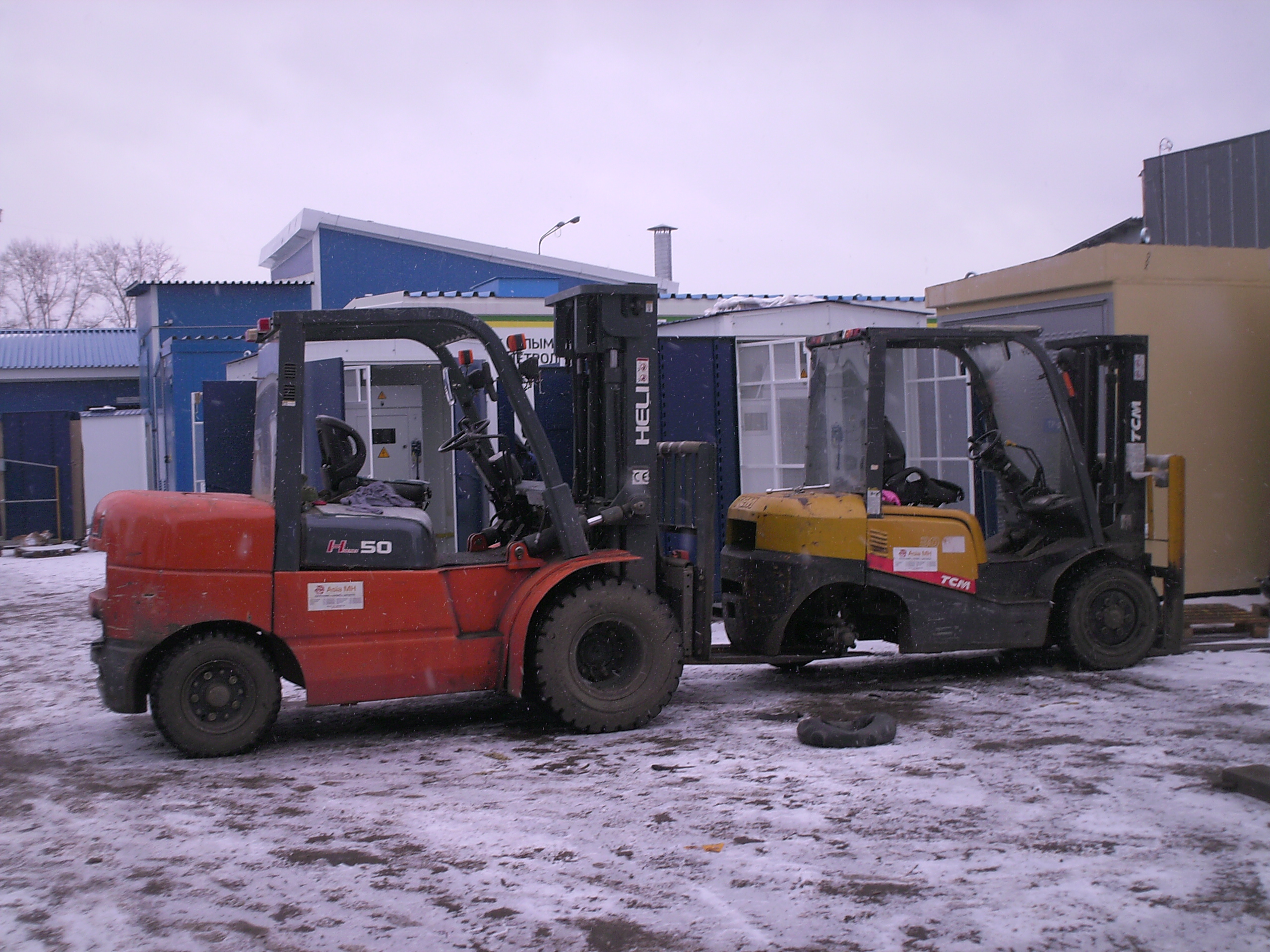 Wheel replacement on the loader